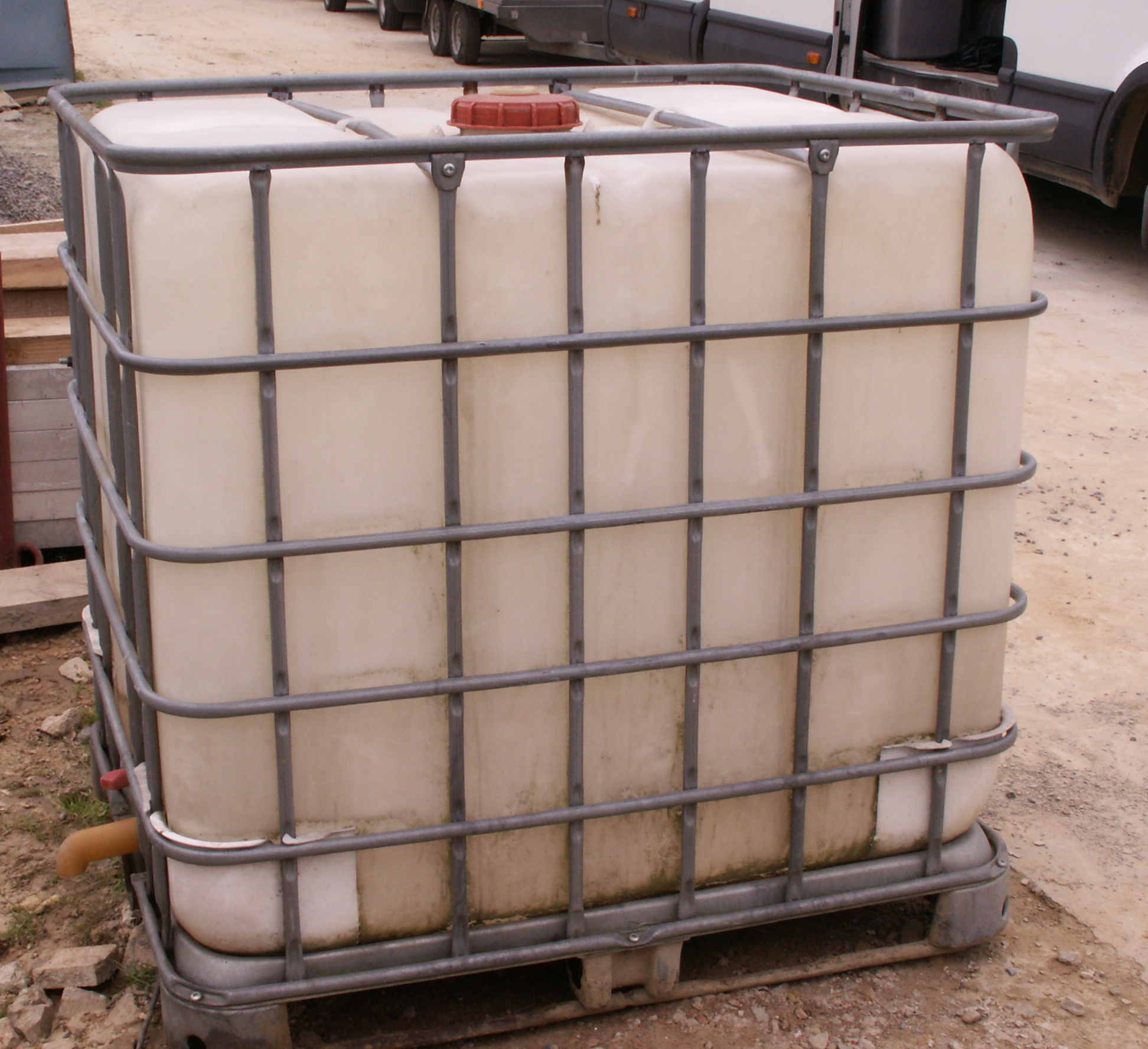 A picture of a plastic water tank/barrel (specifically an IBC). This kind of water container is very environmentally-unfriendly and is best replaced by a wooden veriant.